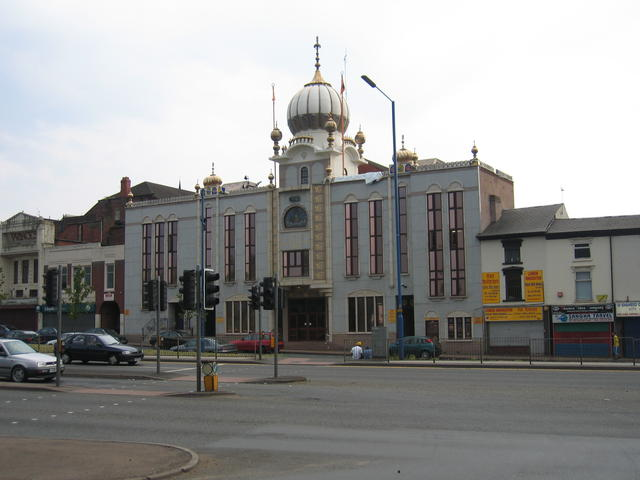 Smethwick Gurdwara. The Guru Nanak Gurdwara in Smethwick is named after Guru Nanak Dev Ji, the first guru, or teacher, of the Sikh religion. The Gurdwara is the second oldest Sikh temple in Britain.